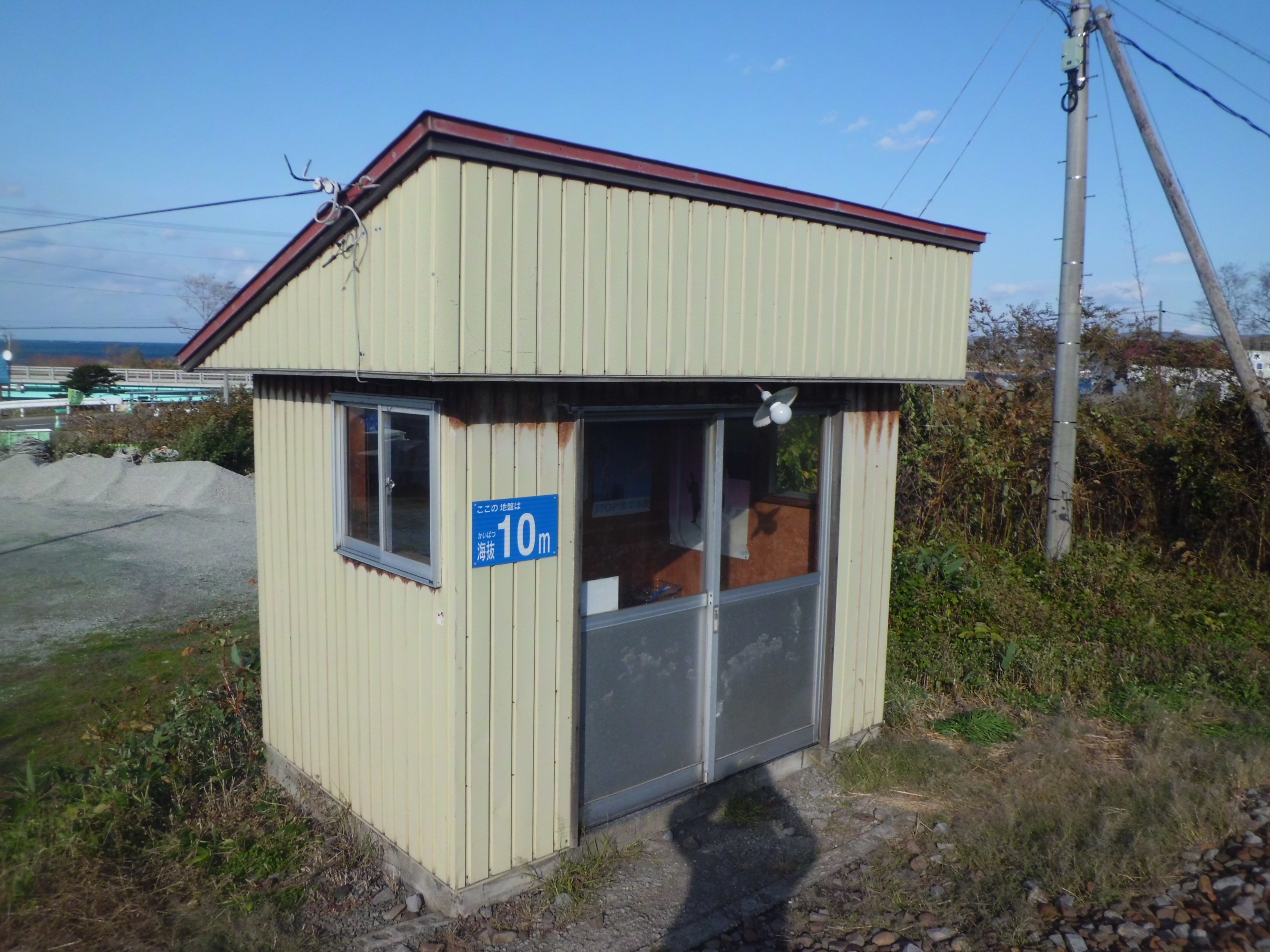 Waiting room of Hashibetsu Station